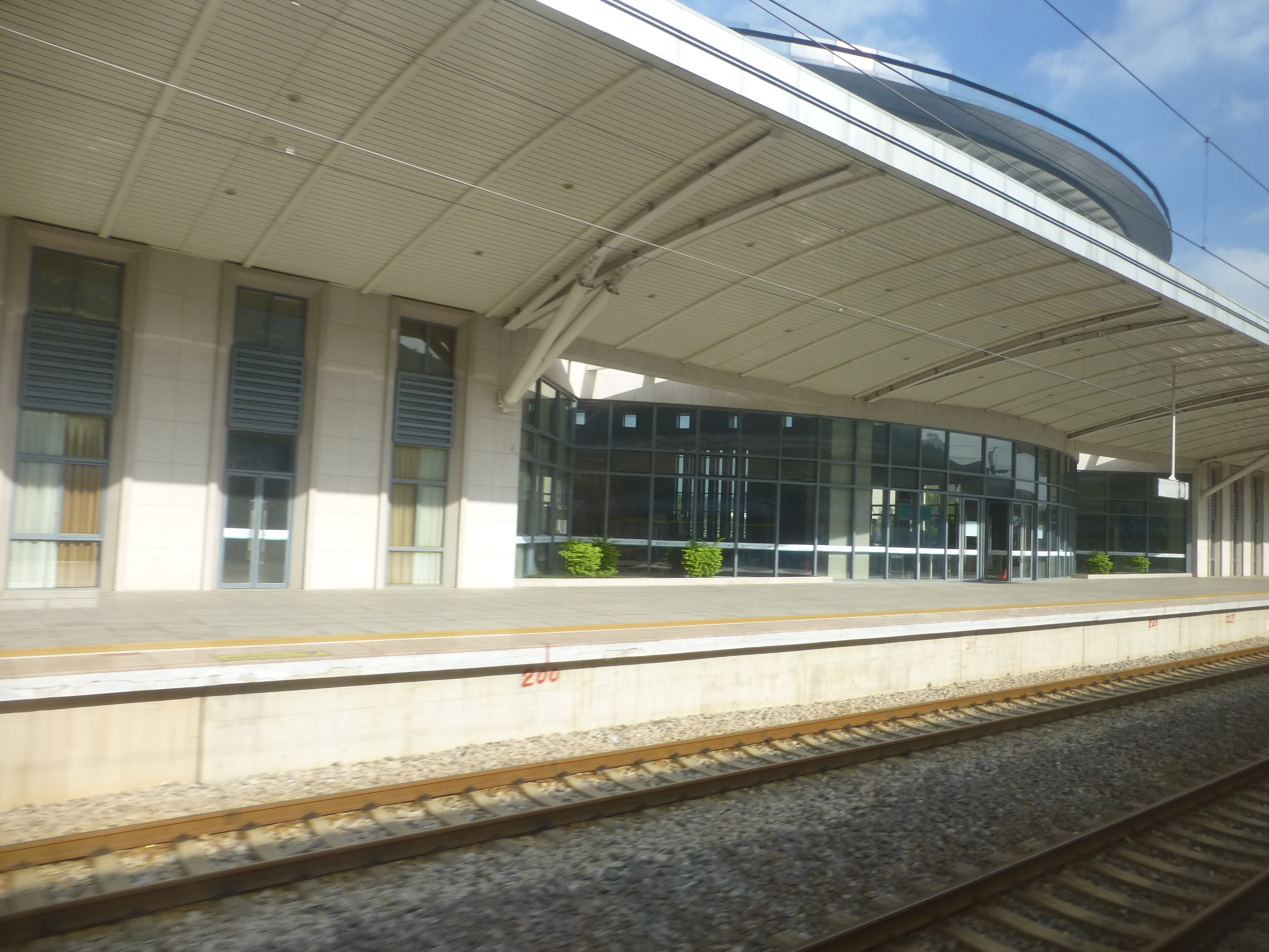 Nanjing Railway Station on the Longyan-Xiamen Railway in Fujian